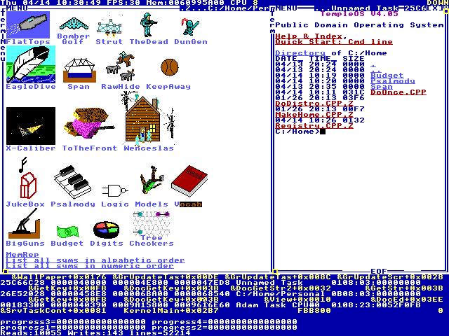 This is a TempleOS 4.05 session, displaying the command prompt and the default setup for the personal menu, which displays icons for a number of the included applications.